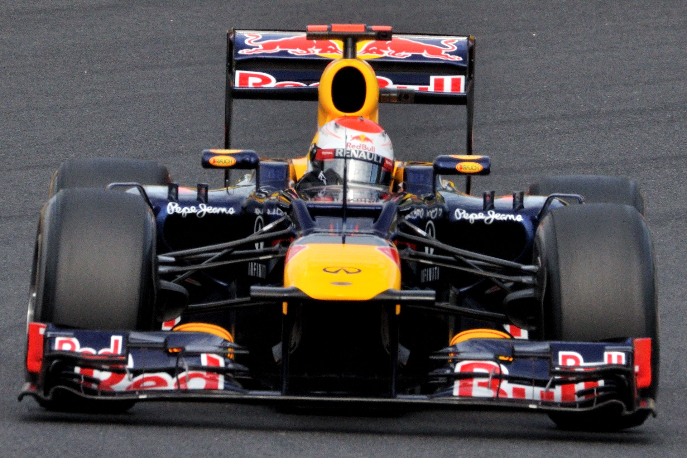 Sebastian Vettel qualified fastest and started the race on pole poisition for the 2012 Formula 1 Japanese Grand Prix. Pictured here, Vettel exits the hairpin during a qualifying session.